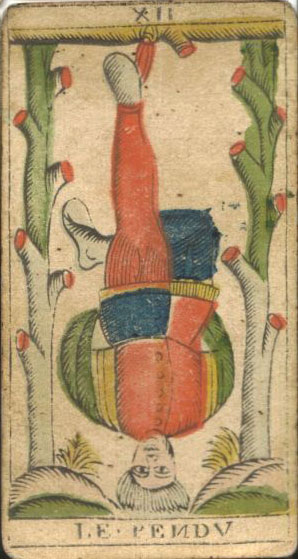 Trump card from the Renault tarot of Besançon.